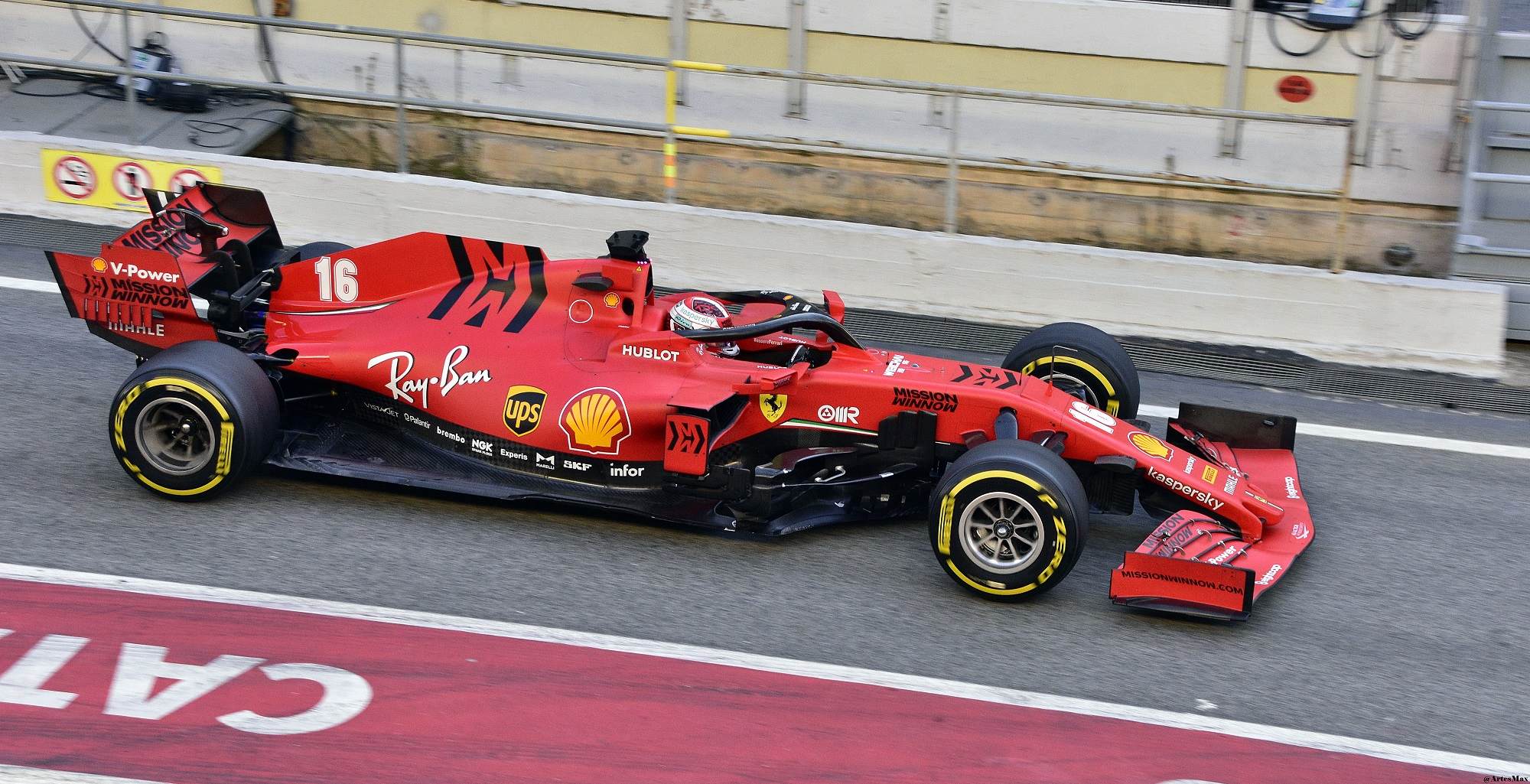 Formula 1 Pre-Season Testing 2020 / Circuit de Barcelona / Ferrari SF1000 / Charles Leclerc / MCO / Scuderia Ferrari Mission Winnow